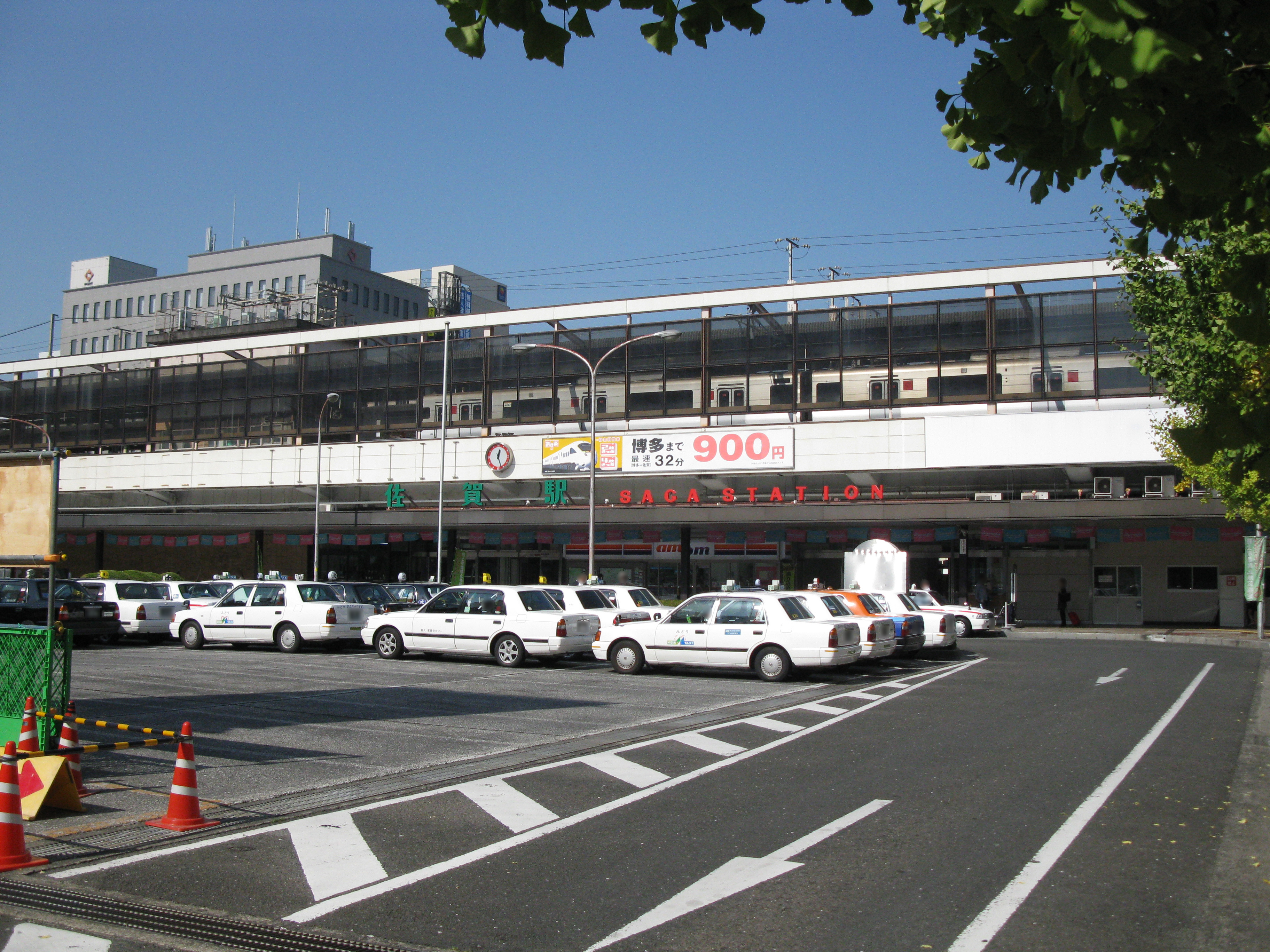 Saga Station south entrance (Kyushu Railway Nagasaki Main Line)